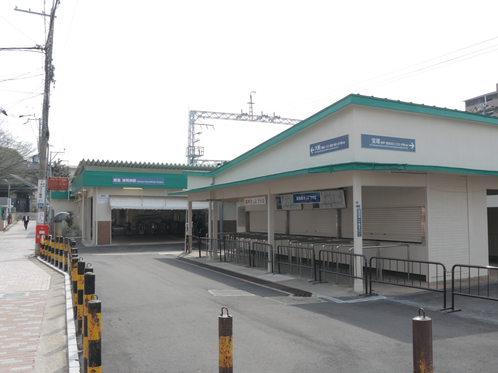 North gate from Kiyoshikōjin Station.